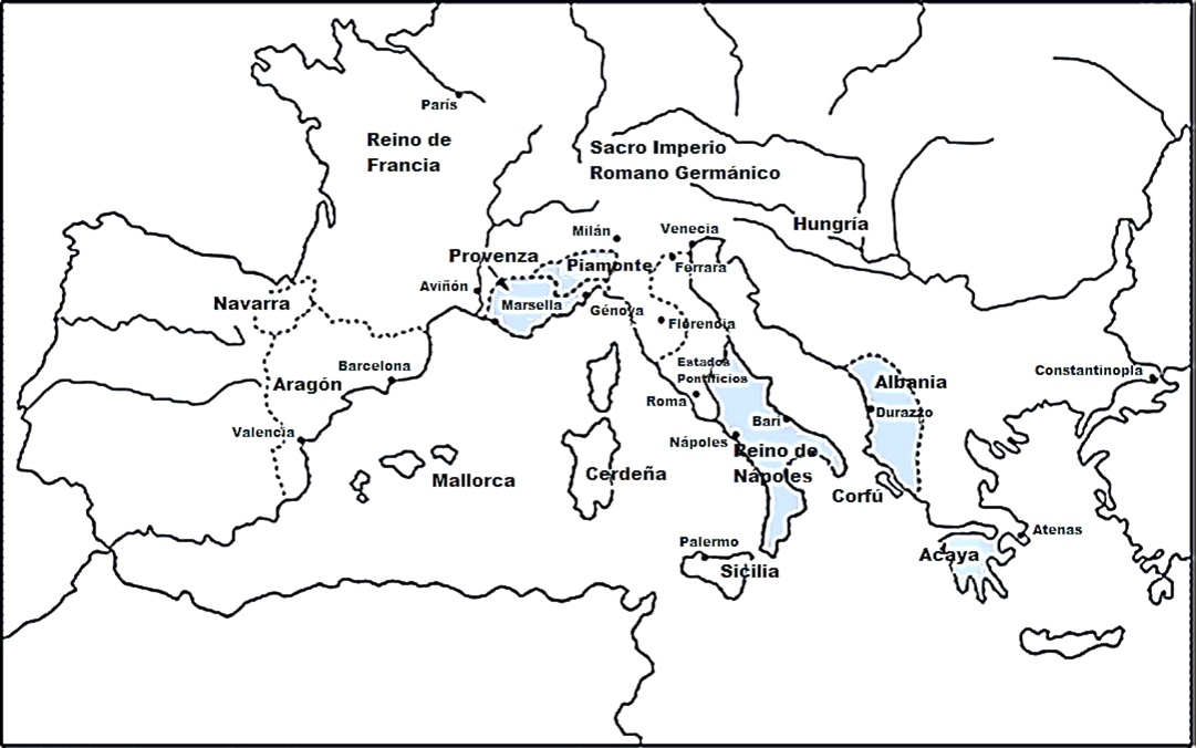 Charles of Anjou's empire (1285).